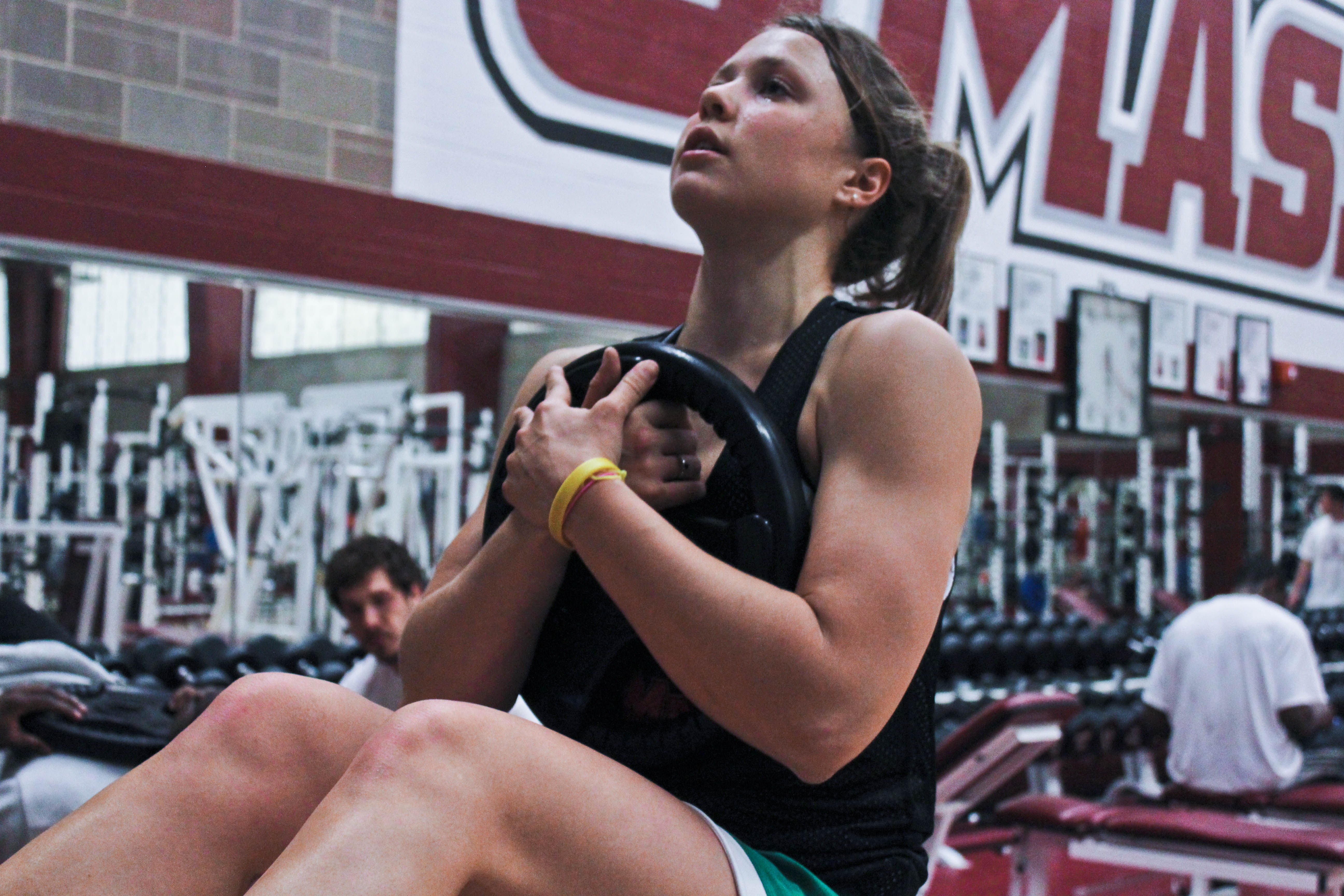 Crunches